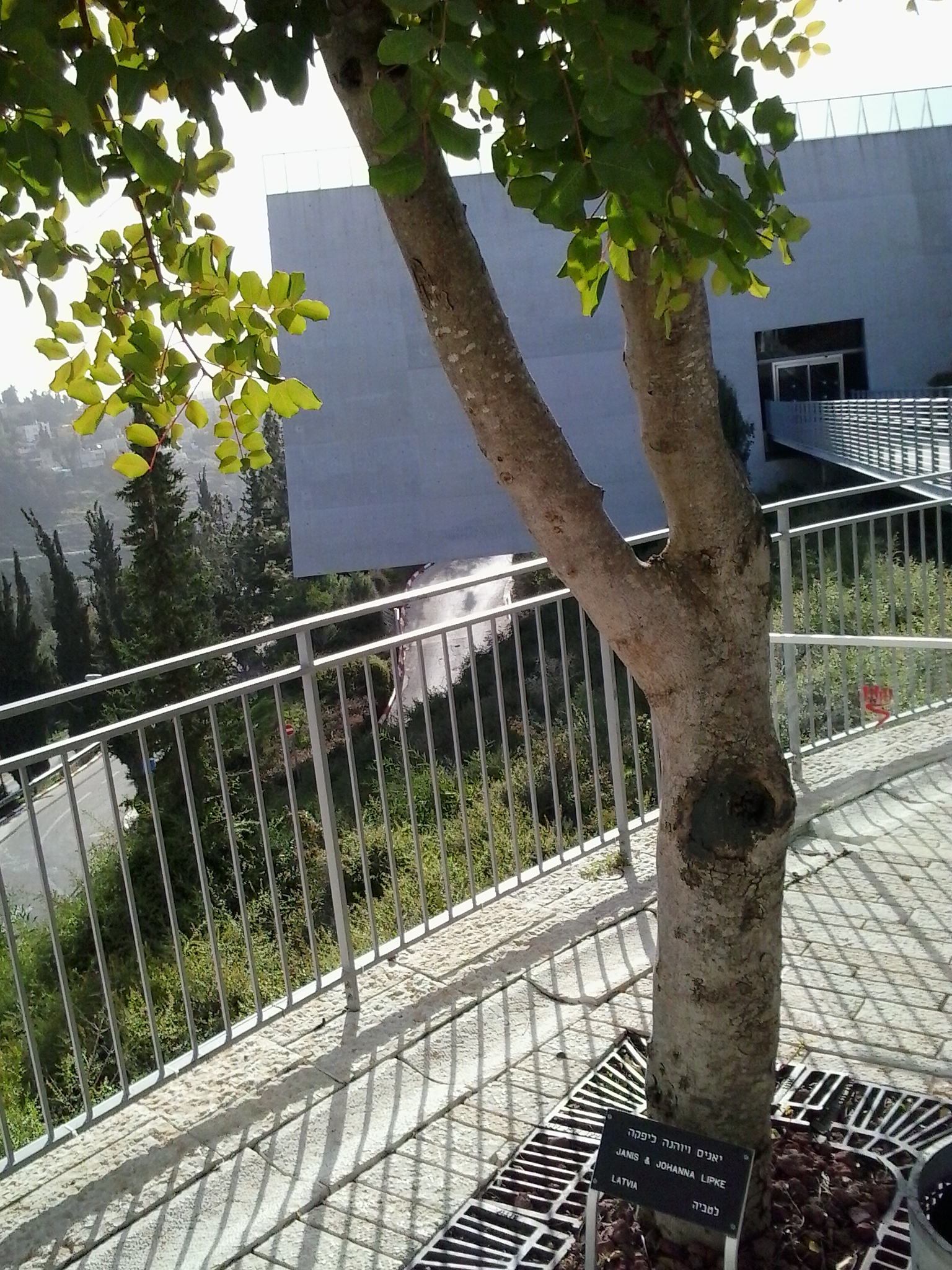 The tree planted at Yad Vashem honoring Righteous Among the Nations Janis and Johanna Lipke